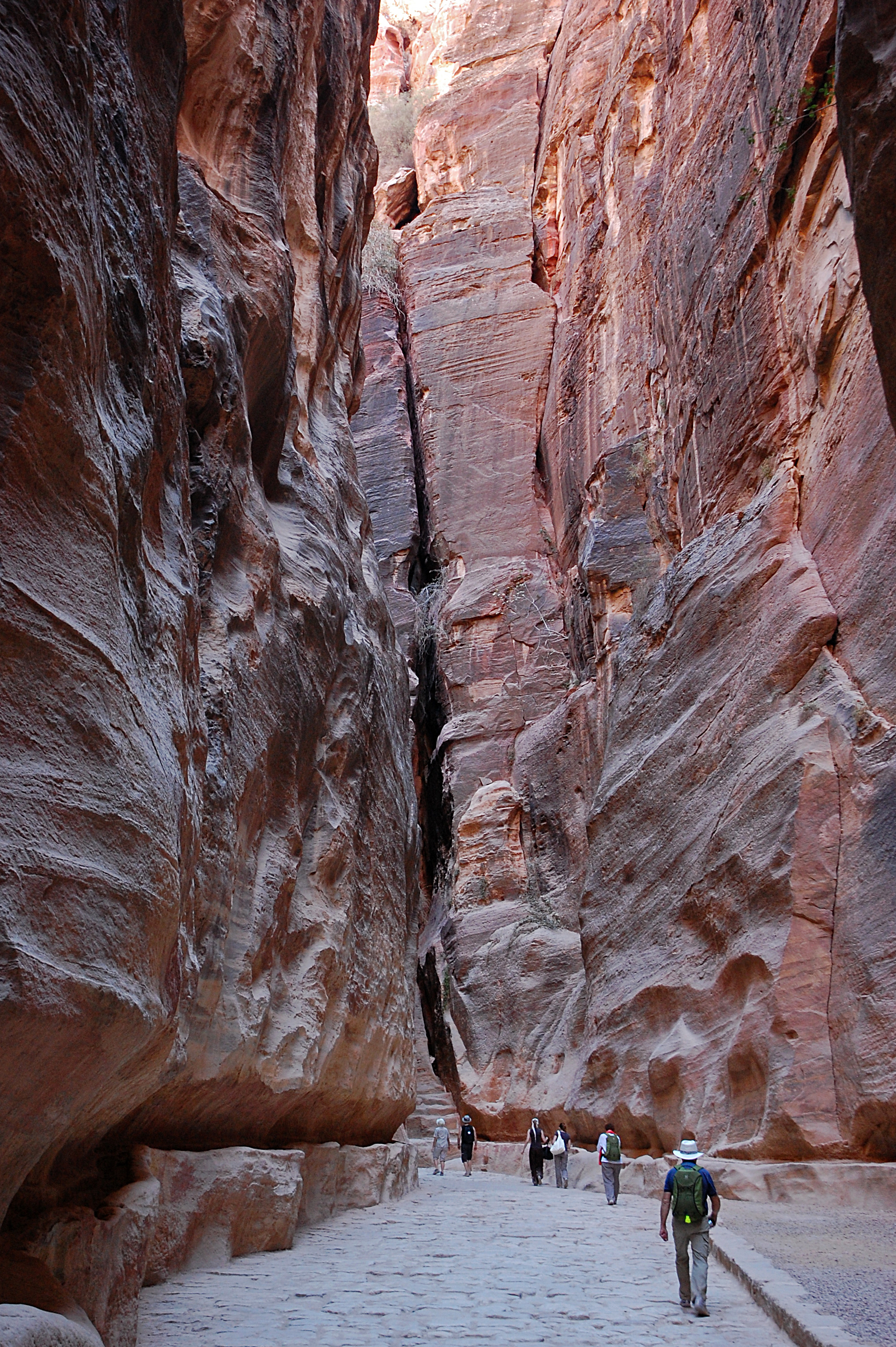 Petra